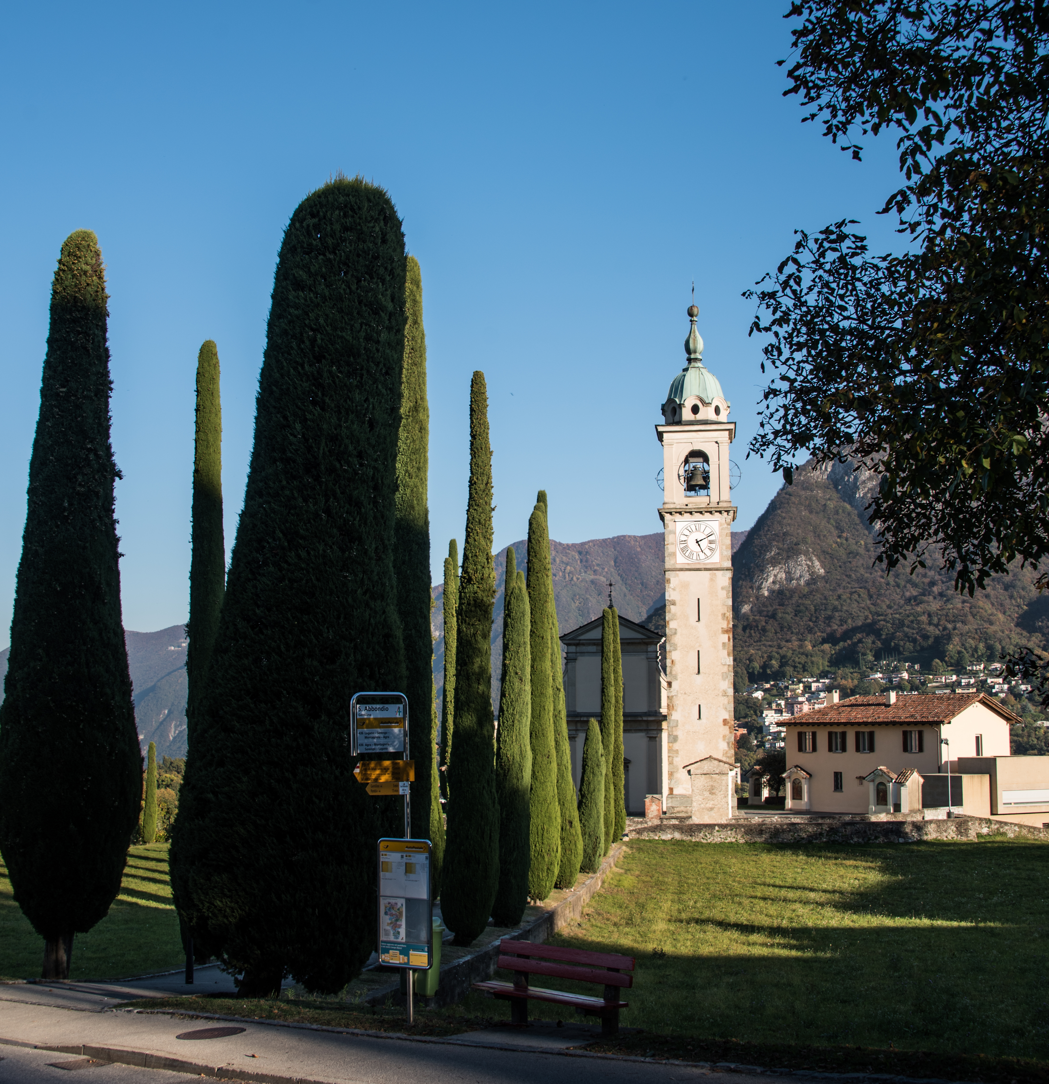 Church Sant' Abbondio in Collina d'Oro